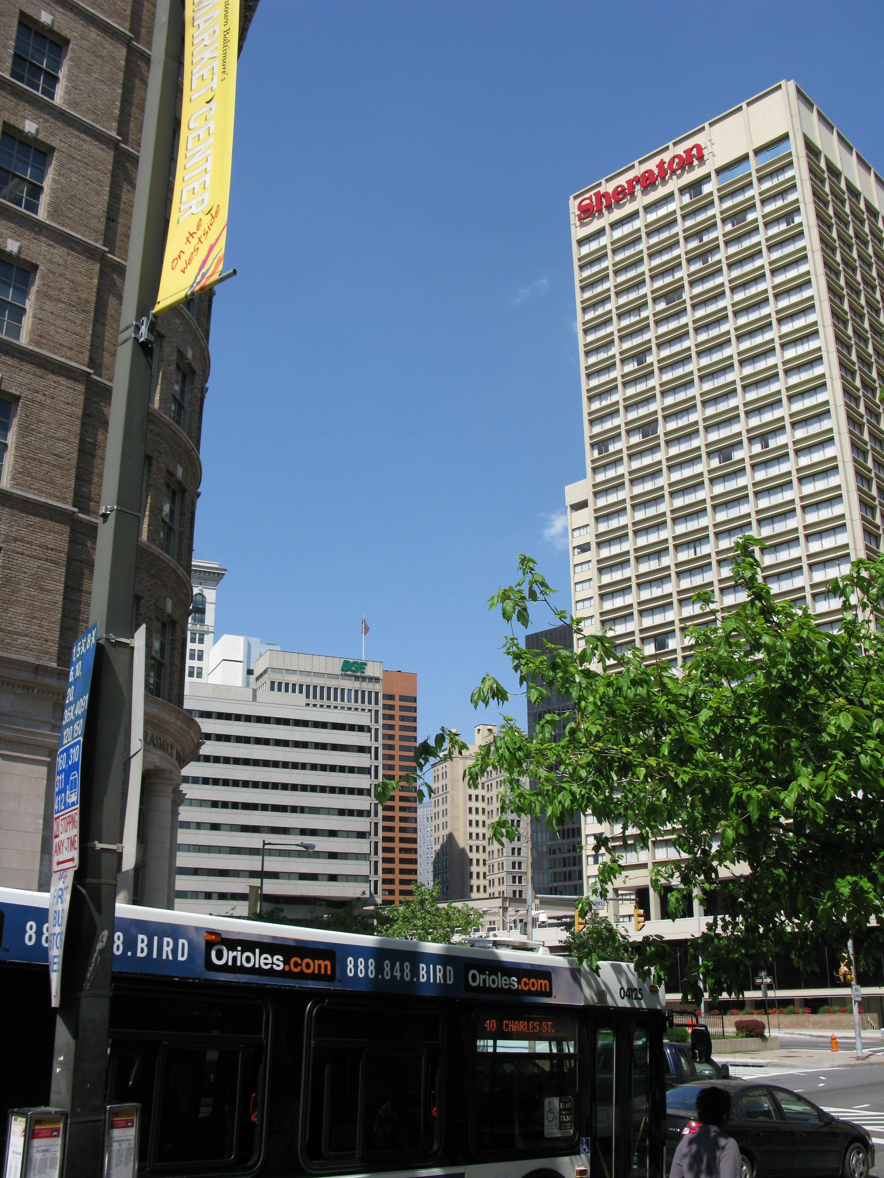 West Baltimore Street looking toward North Liberty Street, Baltimore, Maryland.